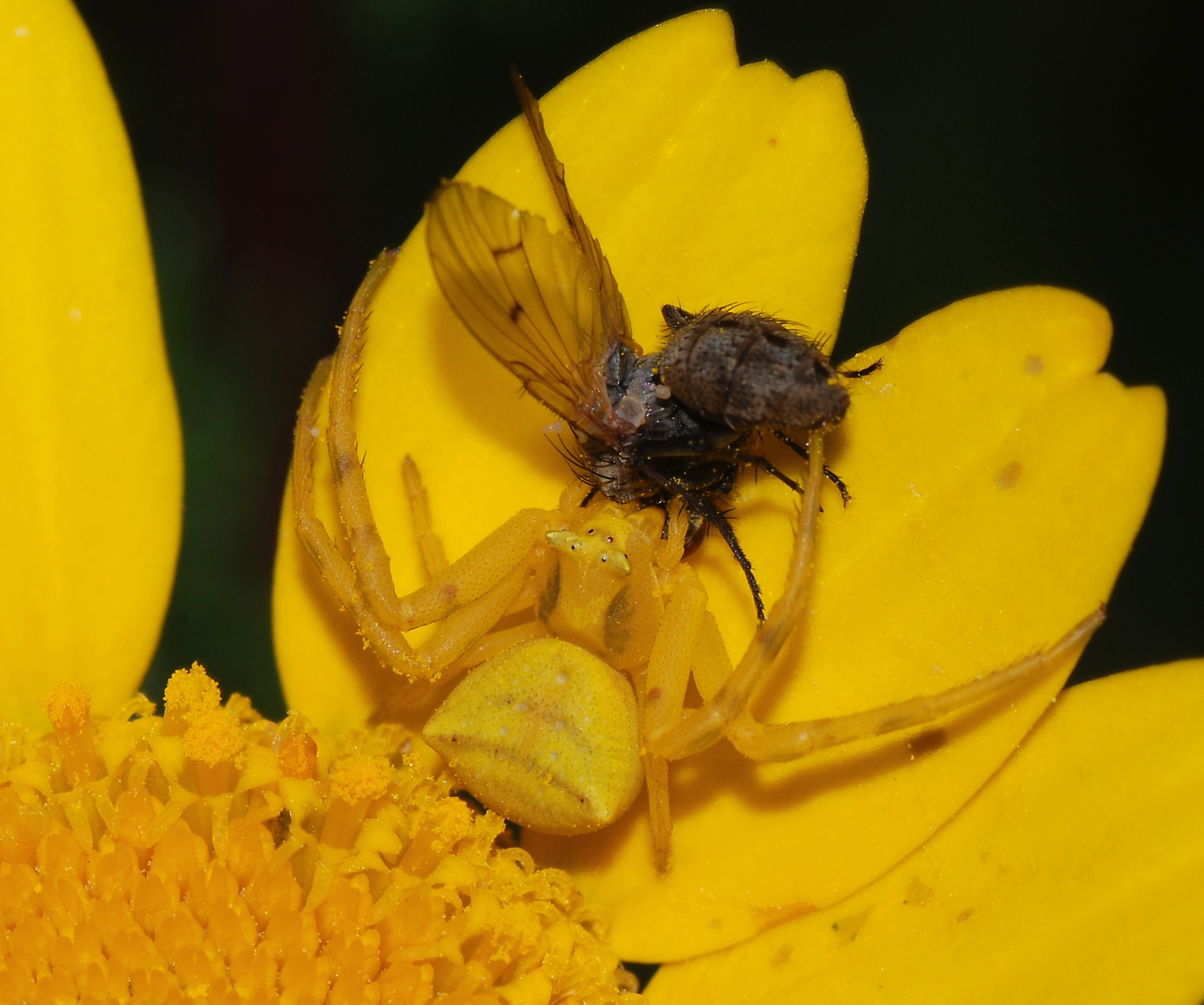 A crab spider (Thomisus onustus) with prey